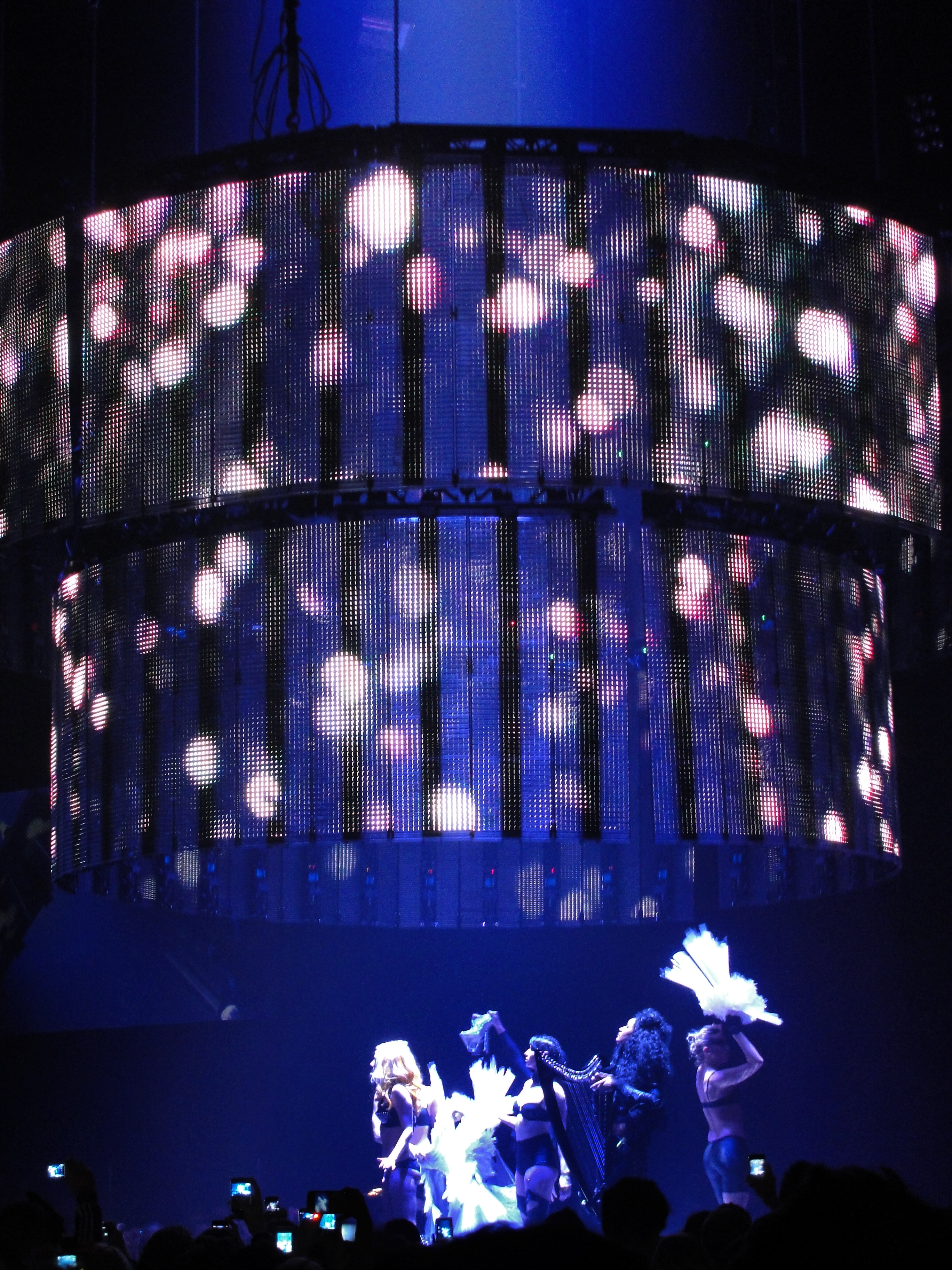 Lady Gaga is about to be hidden under a cone-shaped video screen, the "Twister" on the revamped Monster Ball Tour.